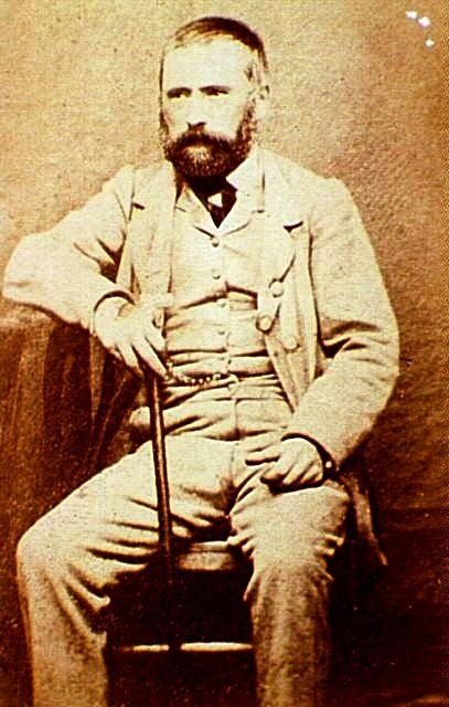 French politician Charles Ferdinand Gambon (1820-1887)